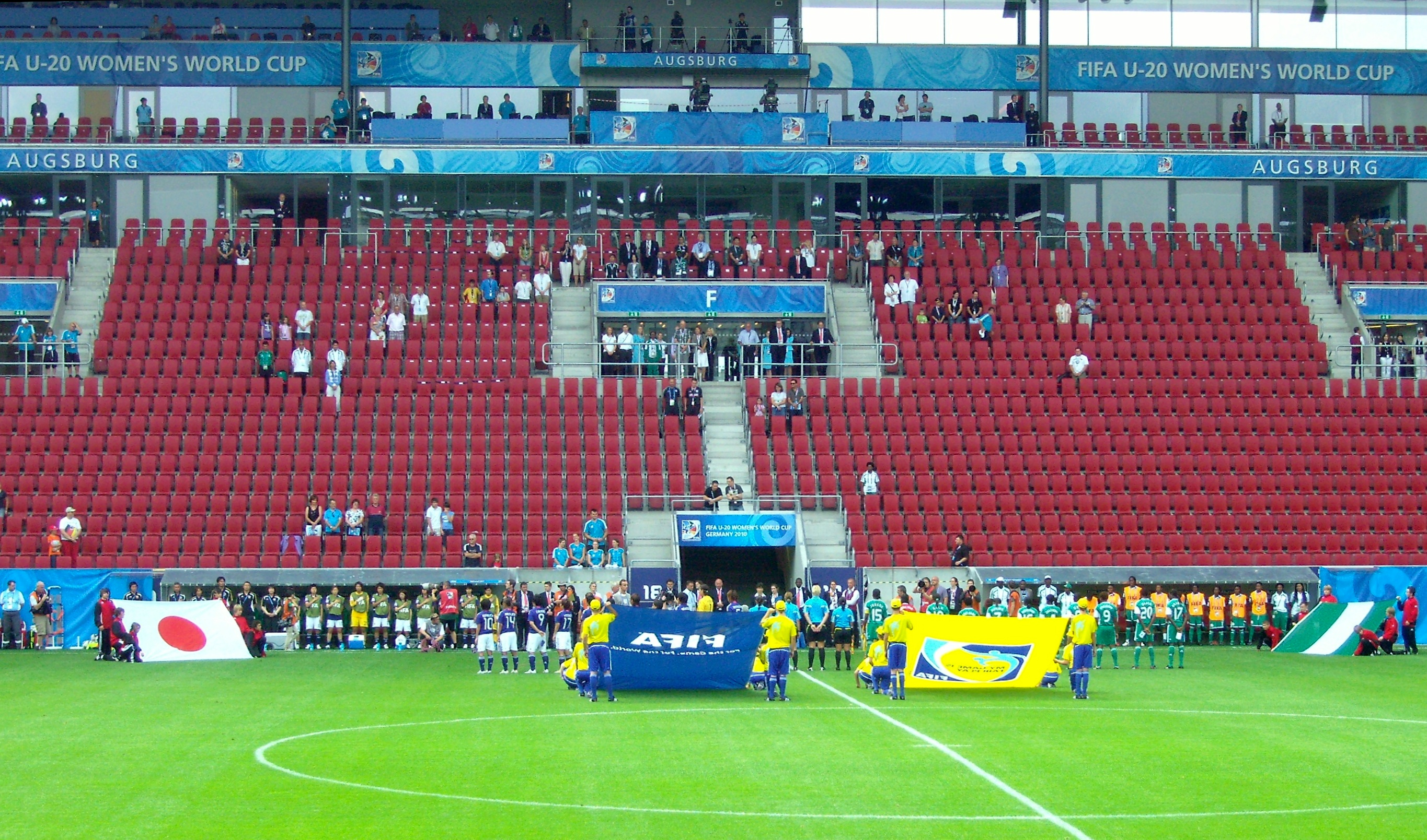 Nigeria–Japan at 2010 FIFA U-20 Women's World Cup in Impuls Arena as “FIFA Women's World Cup Stadium Augsburg”:Teams of Nigeria and Japan stand for the Kimigayo (national anthem of Japan). Few spectators stand at the main stand.